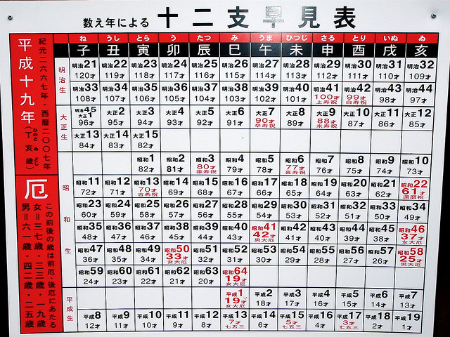 Yakudoshi - Years of Bad Luck chart. This is the chart of yakudoshi (厄年, literally "calamity years") from a shrine in Japan. The dates are in the Japanese calendar, but if you were born in one of the years in red, this is your unlucky year. To avert the disaster awaiting you, you can buy charms from the temple and set them on fire to take away your bad luck. A tidbit a lot of people don't realize is that in Japan, your age is almost always counted by the reign year you were born in and not the number of years you're been alive. All official paperwork, forms, even karaoke room reservation slips ask for the era and reign year of your birth, not your age - I can never remember "Showa 58" as my birth year. To find your year on this chart, use the numbers at the bottom (i.e. 120-1) of each square. Keep in mind this was taken in 2007, so this chart references the age you turned in 2007.